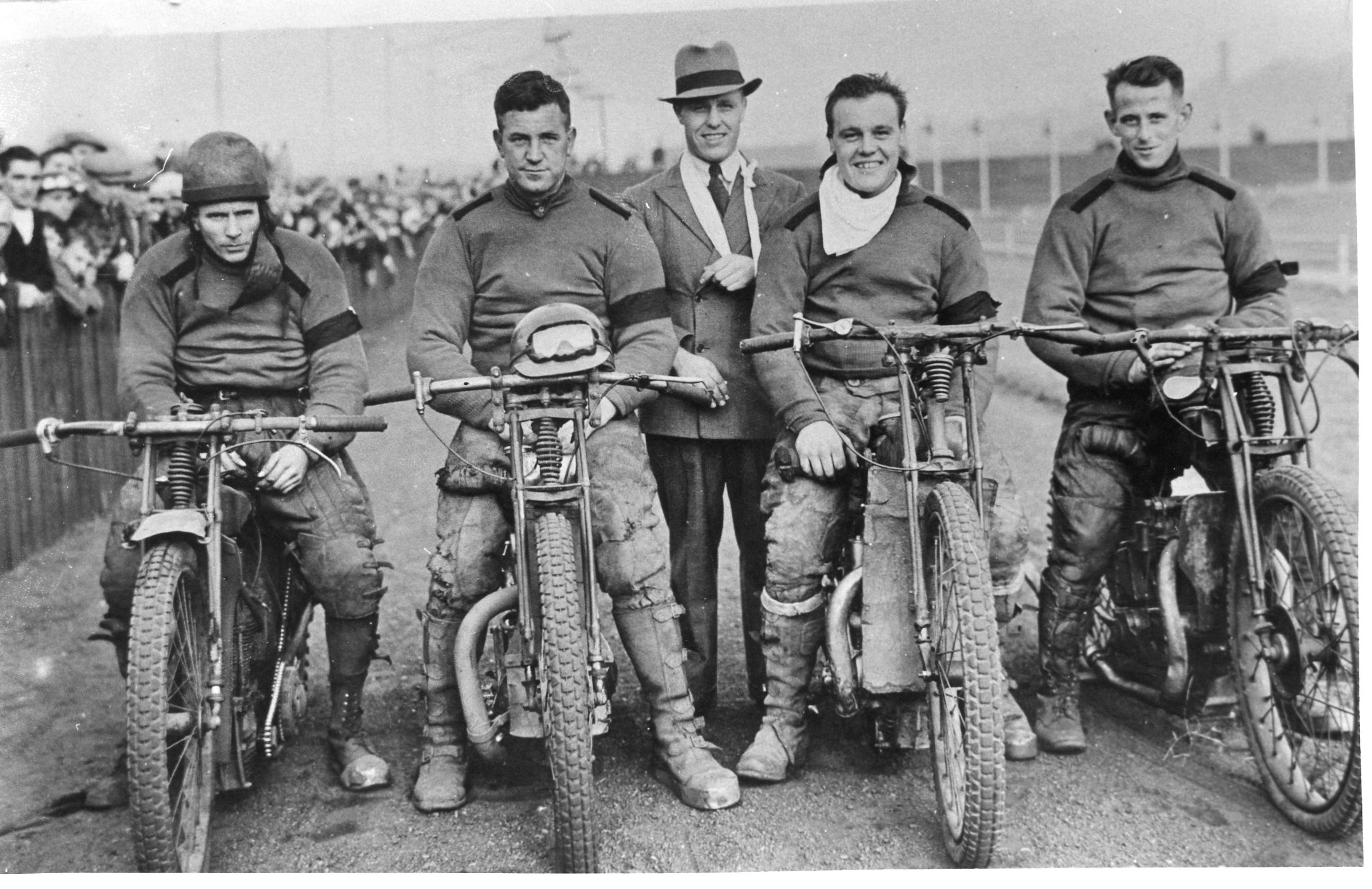 Roland Stobbart (centre), Maurice Stobbart (second right)